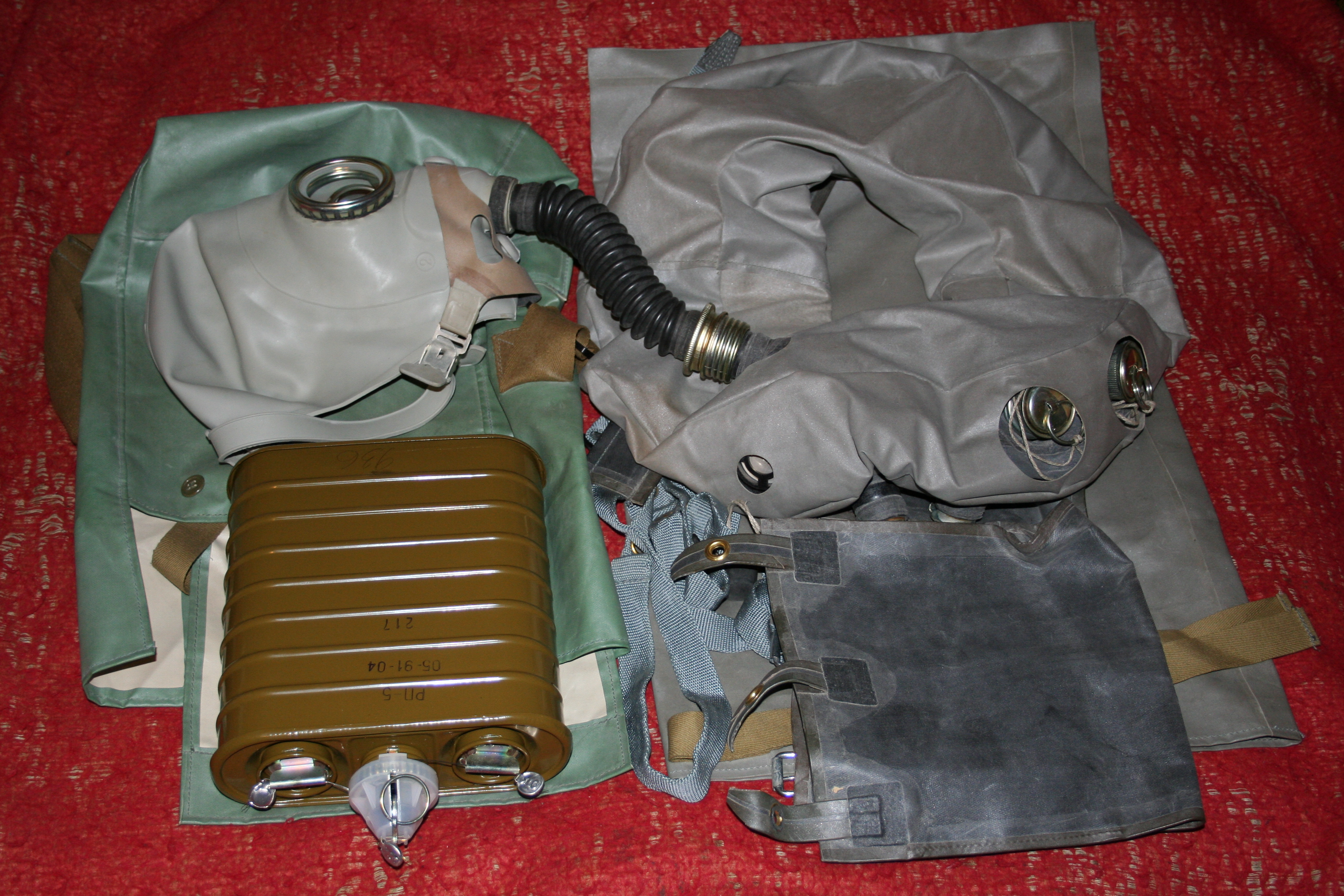 Russian insulator gas mask ИП-5